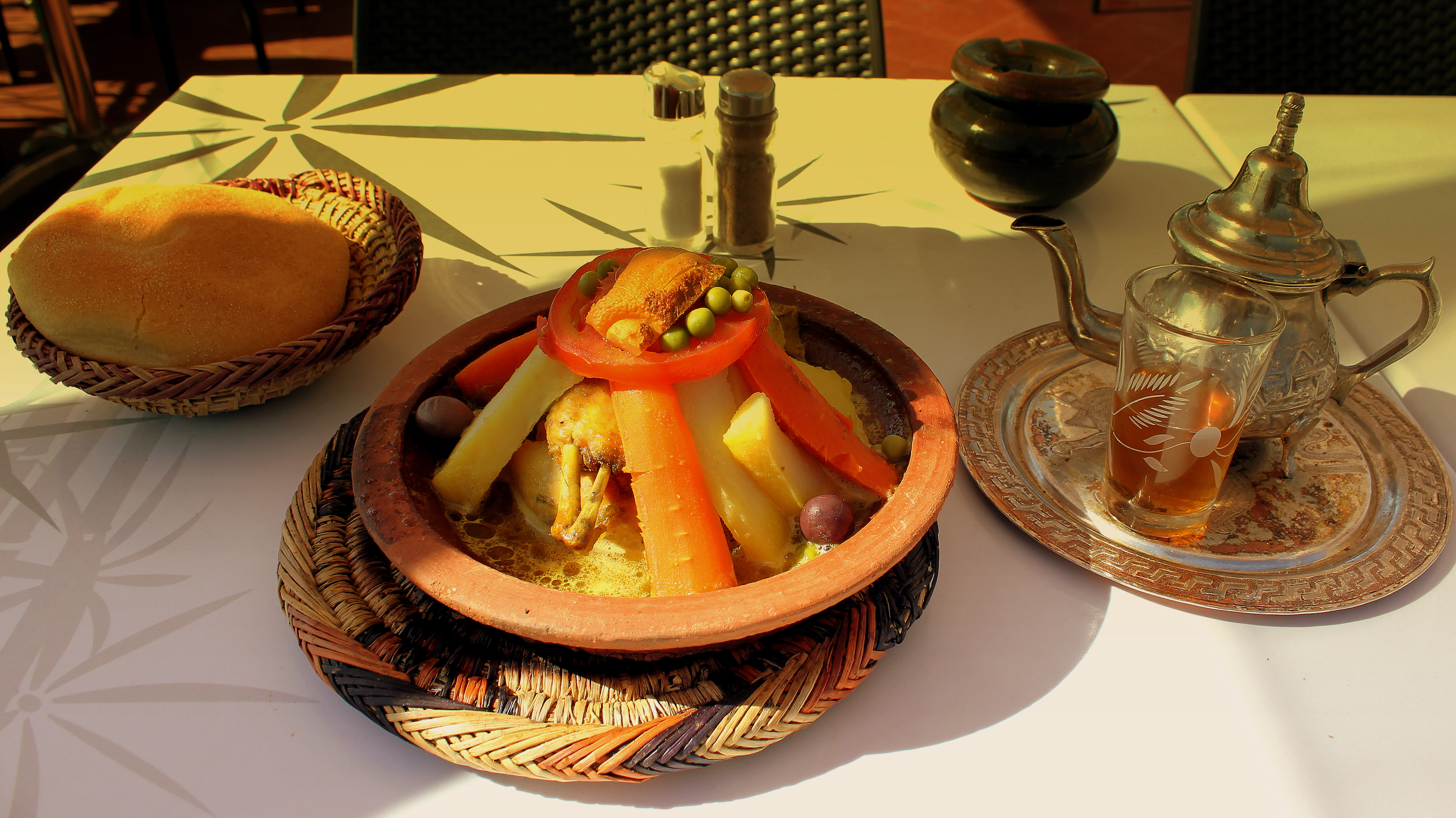 TAGINE COOKED CHICKEN AND VEGETABLES WITH MINT TEA IN JEMAA EL FNA SQUARE MARRAKECH MOROCCO APRIL 2013